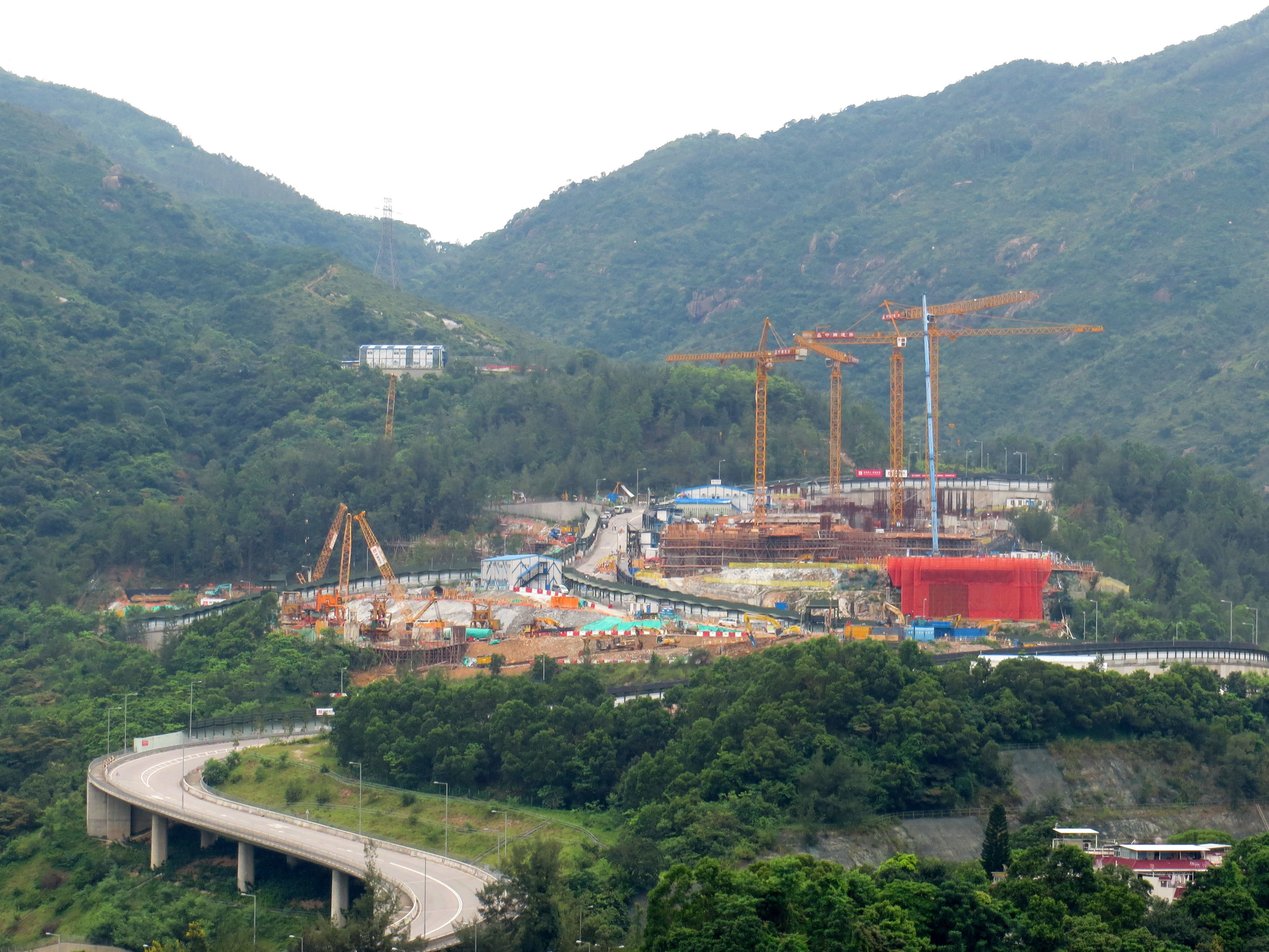 Shui Chuen O public housing project under construction, Sha Tin, New Territories, Hong Kong.